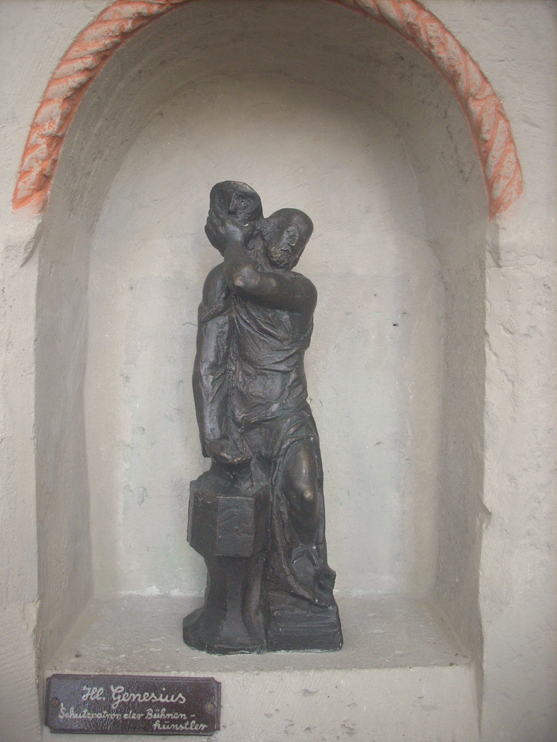 Braunschweig, St. Aegidien, statue of Saint Genesius with mask and baptismal font